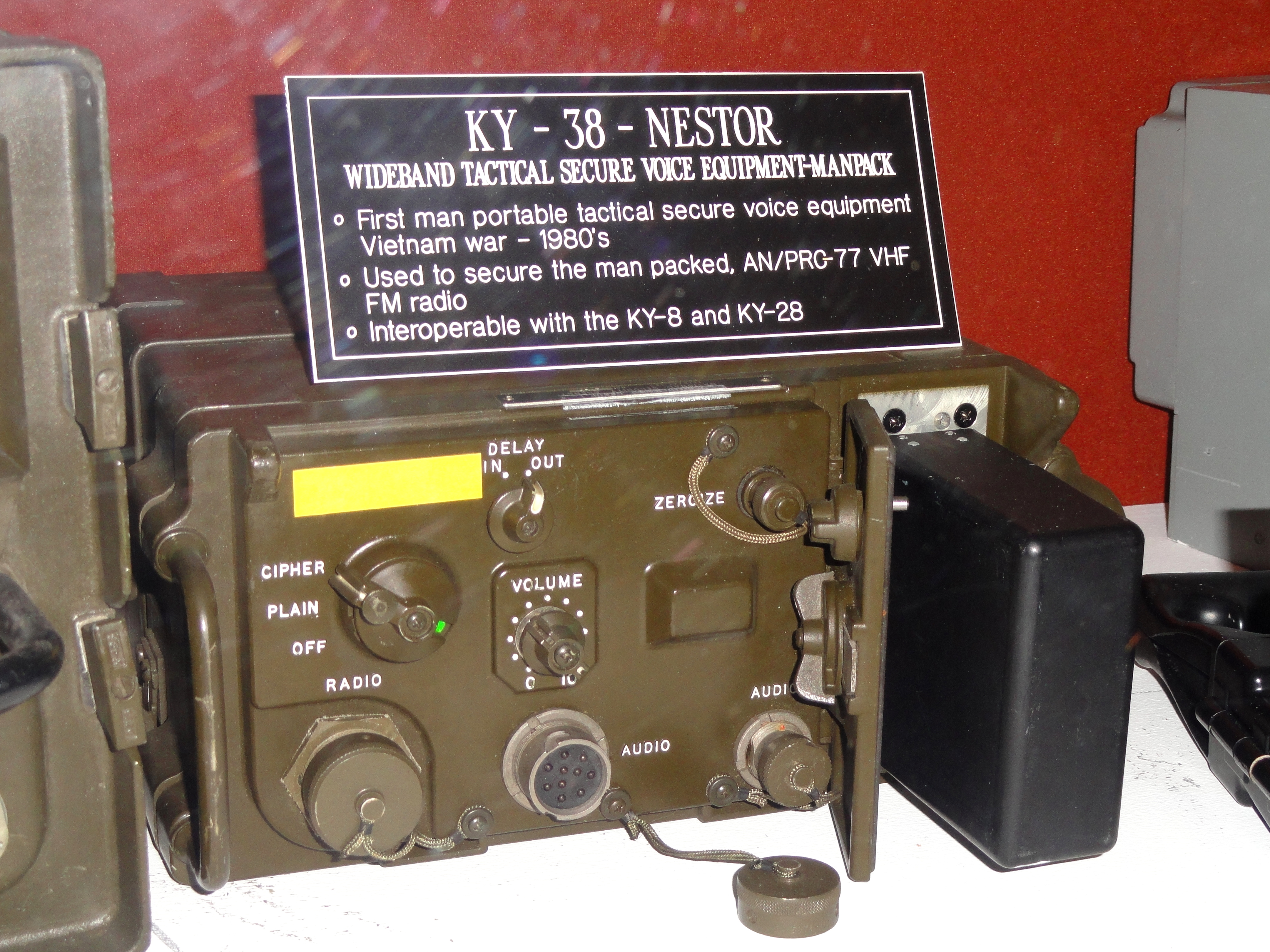 Exhibit in the National Cryptologic Museum, Fort Meade, Maryland, USA. All items in this museum are unclassified; items created by the United States Government are not subject to copyright restrictions.